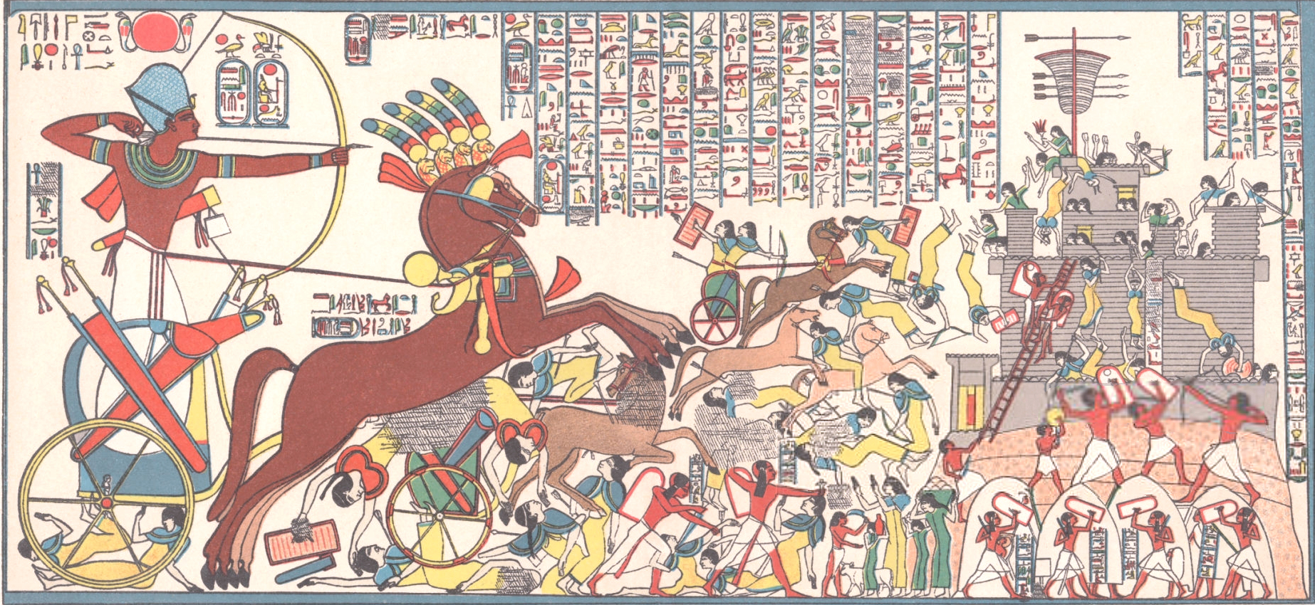 Other version Ramses II besieging the Cheta people in Dapur